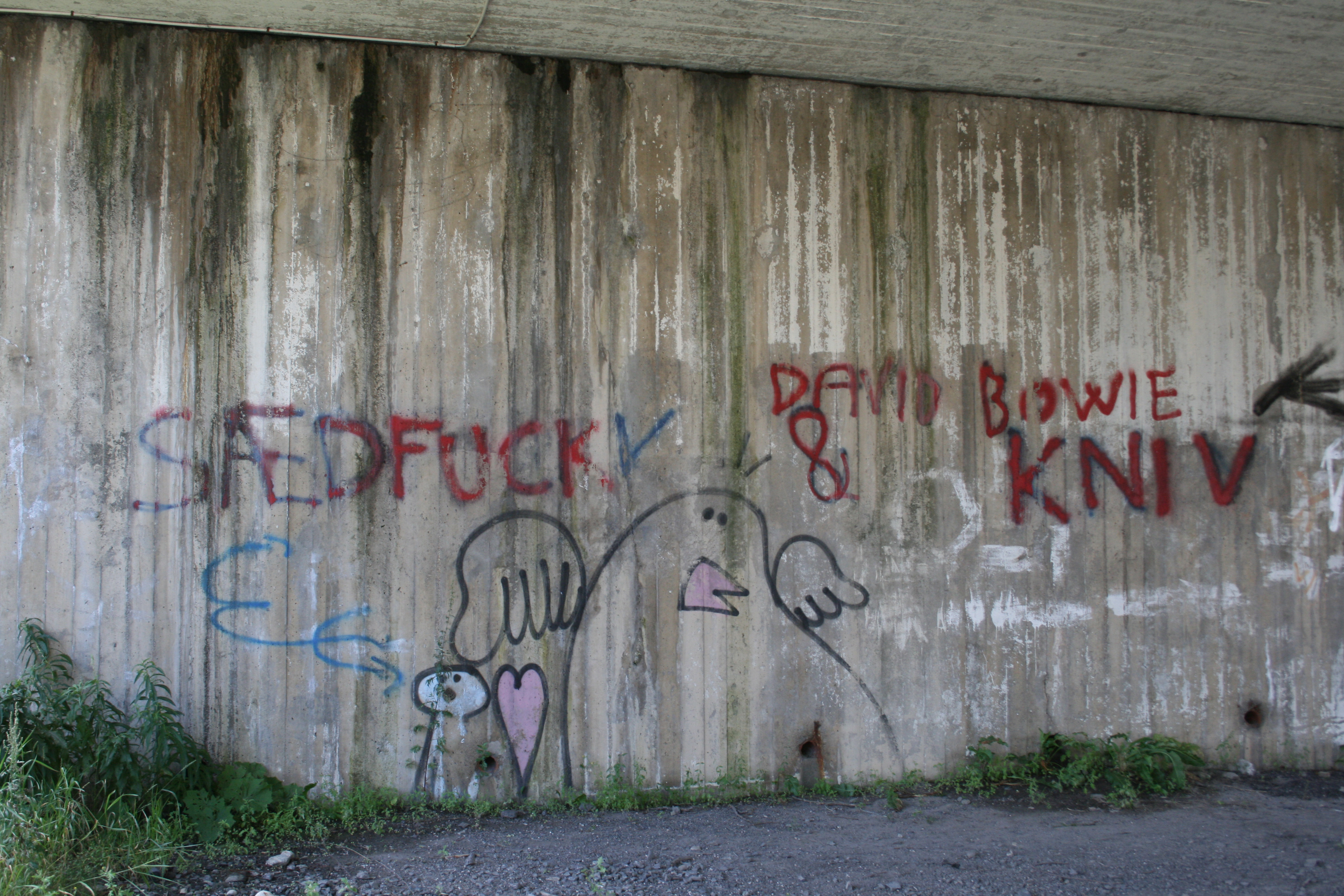 Sædfuck, a classic graffiti at Bøler in Oslo, Norway; first painted 1986.